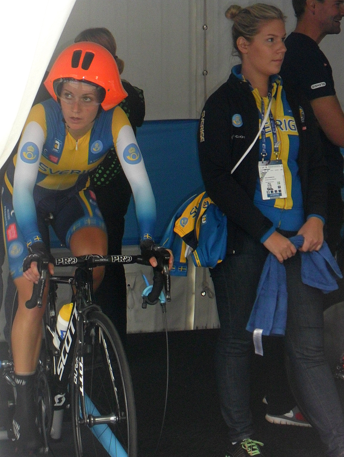 2012 UCI Road World Championships Valkenburg - Women's elite time trial